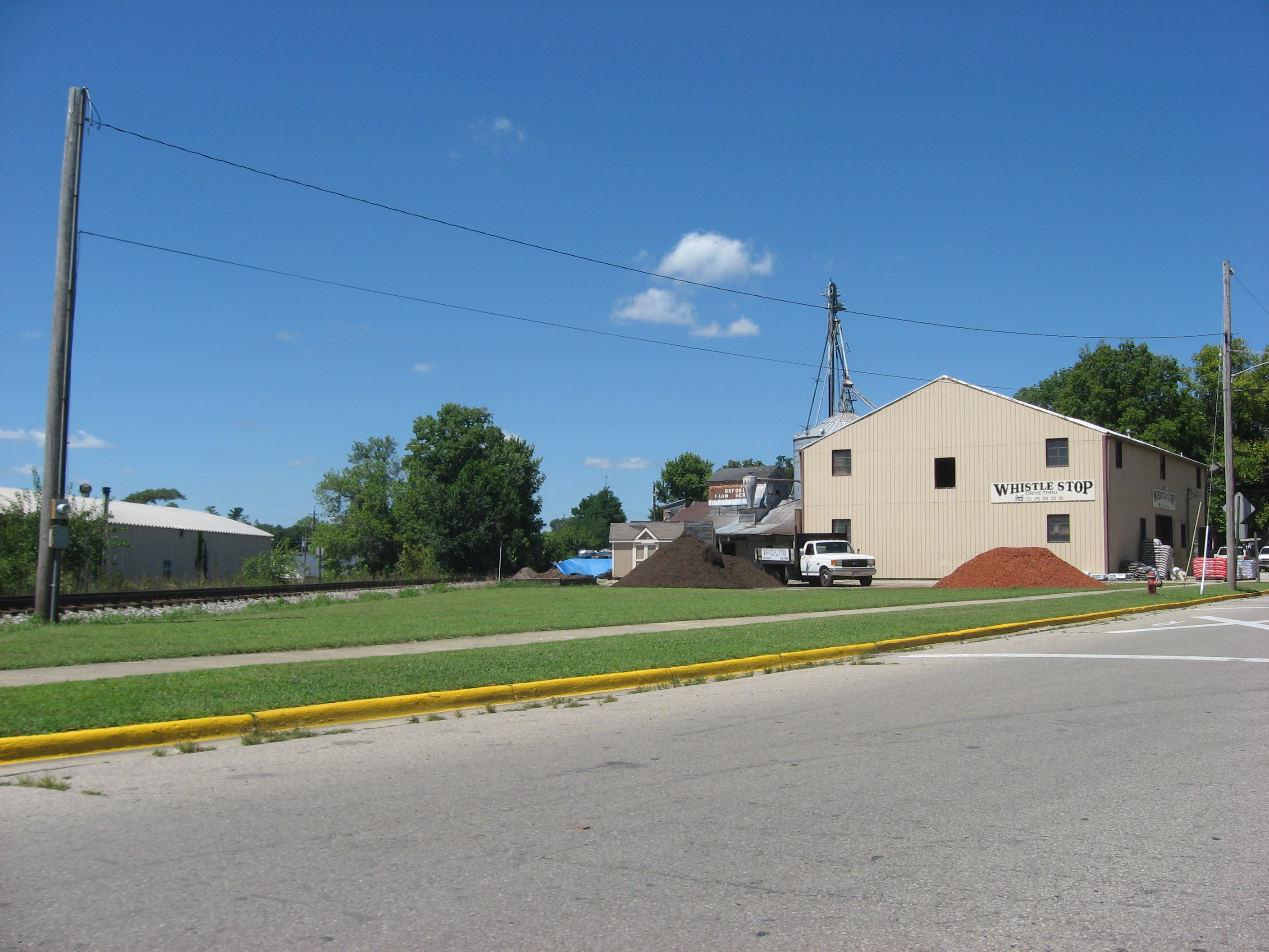 Site of the Oxford Railroad Depot, located on the northwestern corner of the intersection of Elm and Spring Streets in Oxford, Ohio, United States. Built in 1860 and since destroyed, the depot is listed on the National Register of Historic Places despite having been destroyed. A nearby hotel, since converted into the local fire department, is listed together with the depot; it lies on the northeastern corner of the intersection.